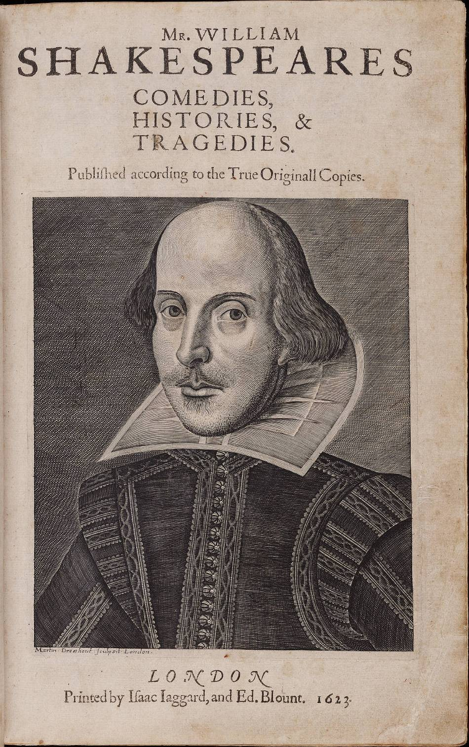 Title page of the First Folio, by William Shakespeare, with copper engraving of the author by Martin Droeshout. Image courtesy of the Elizabethan Club and the Beinecke Rare Book & Manuscript Library, Yale University. [1]